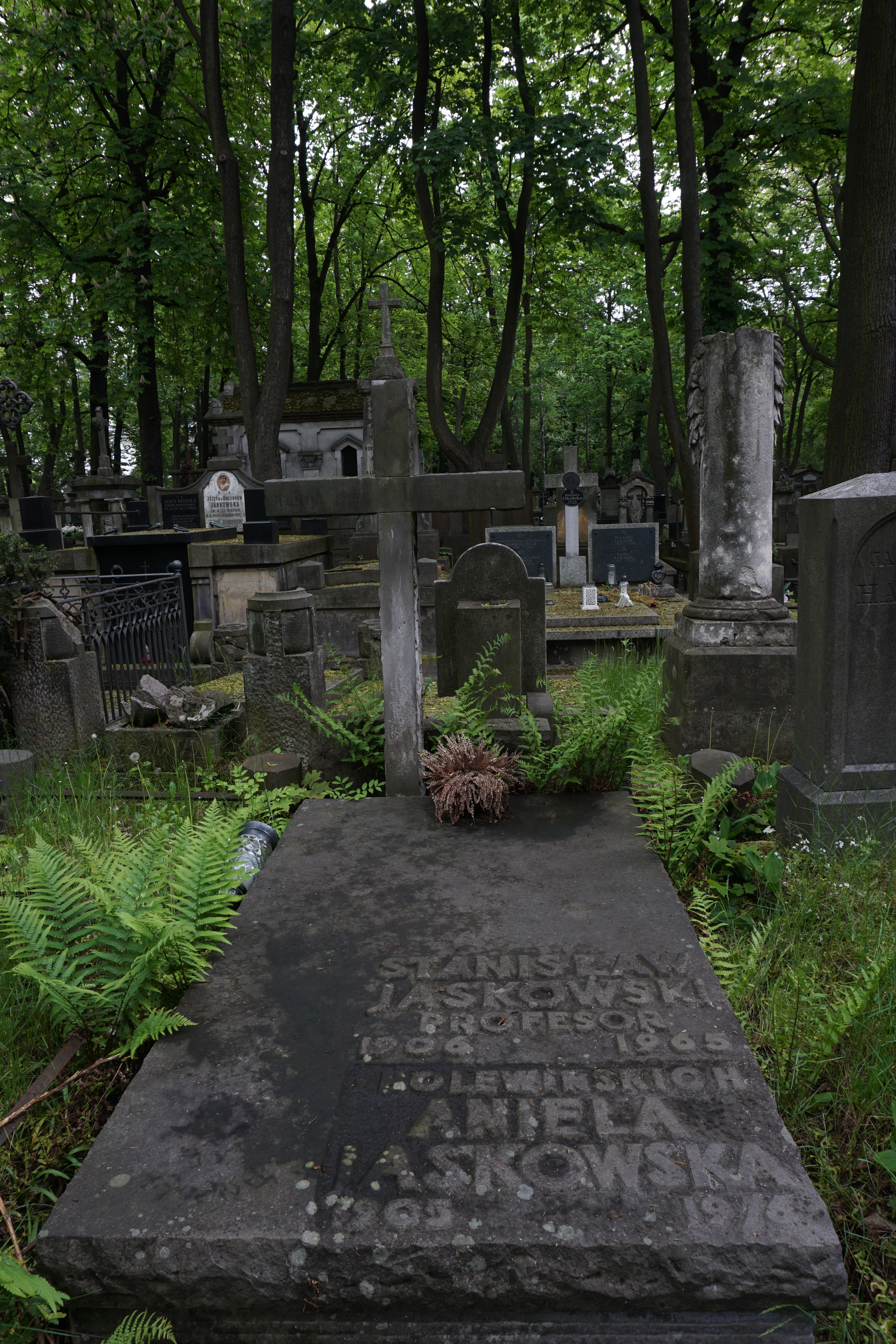 The grave of Stanisław Jaśkowski at the Powązki Cemetery (section 20, row 4, grave 5)